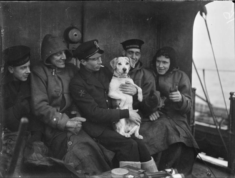 Pluto the dog, mascot of HMS COSSACK stood on the lap of one of the ship's company as a group of them pose during torpedo and anti-submarine exercises.